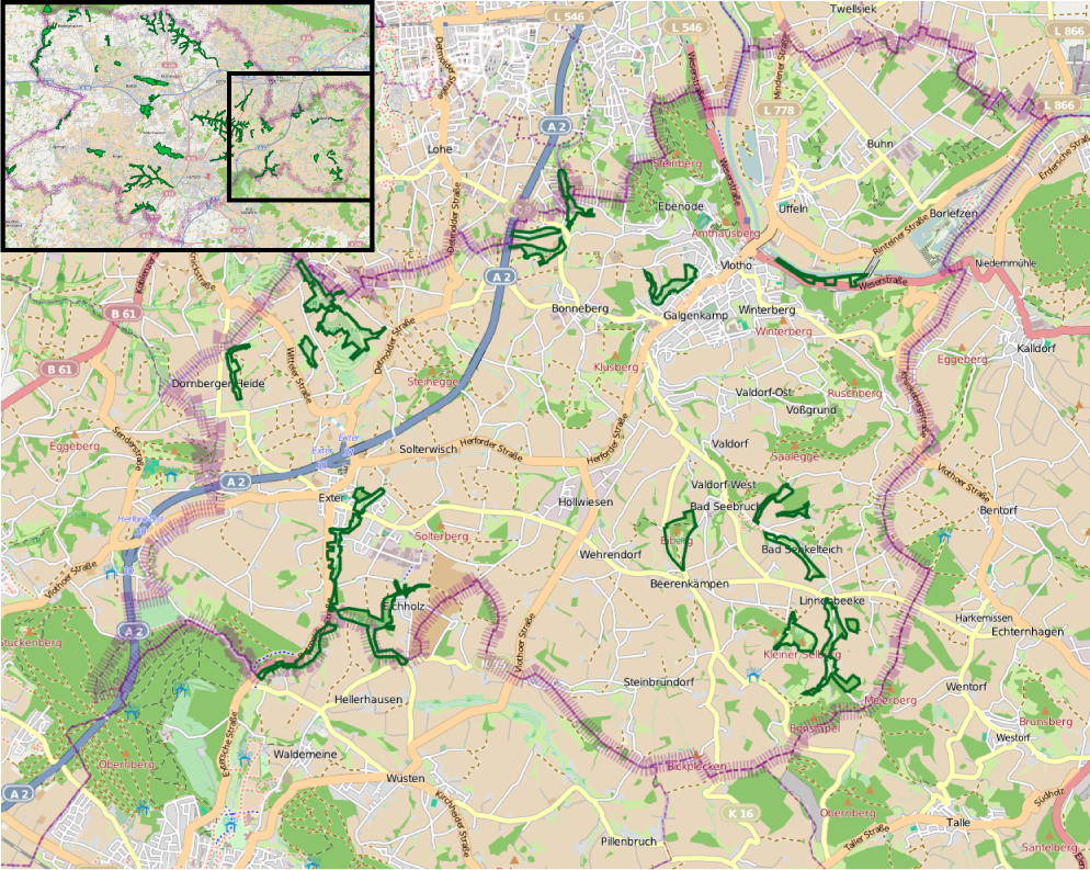 Nature reserves in Vlotho - overview map Number and borders of nature reserves are subject to frequent change. In order to facilitate reproduction of this map from openstreetmap, the following data is stored here: export boundaries: north: 52.2; west: 8.71; east: 8.935; south: 52.09; mapnik svg, scale 1:90.000 nature reserve boundary stroke weight 3.5; nature reserve stroke color: R 5, G 102, B 36; district border stroke weight: 20